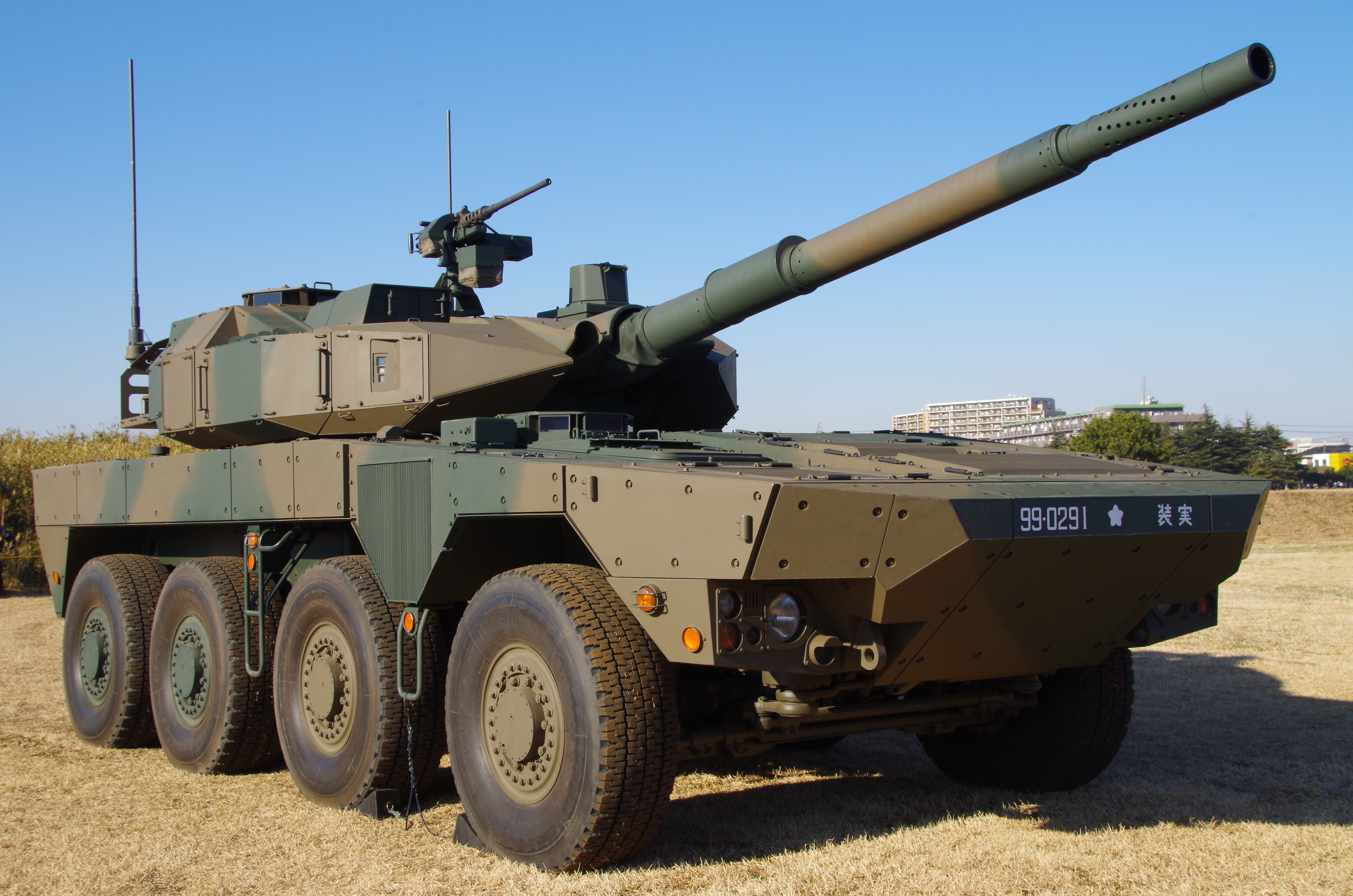 JGSDF Maneuver Combat Vehicle,Test Unit.Taken by Los688,in Narashino,Japan,at 10-Jan-2016,JGSDF 1st Airborne Brigade 2016 first drop manuver.PD-self ja:2016年01月10日、第一空挺団降下訓練始め。機動戦闘車、装備実験隊。習志野演習場にて撮影。